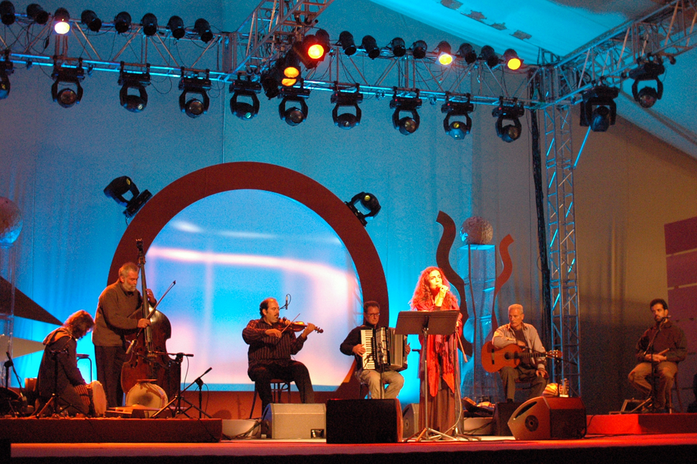 Sephardic musical group from France and Morocco called Naguila performing in Warszawa in September 2008.